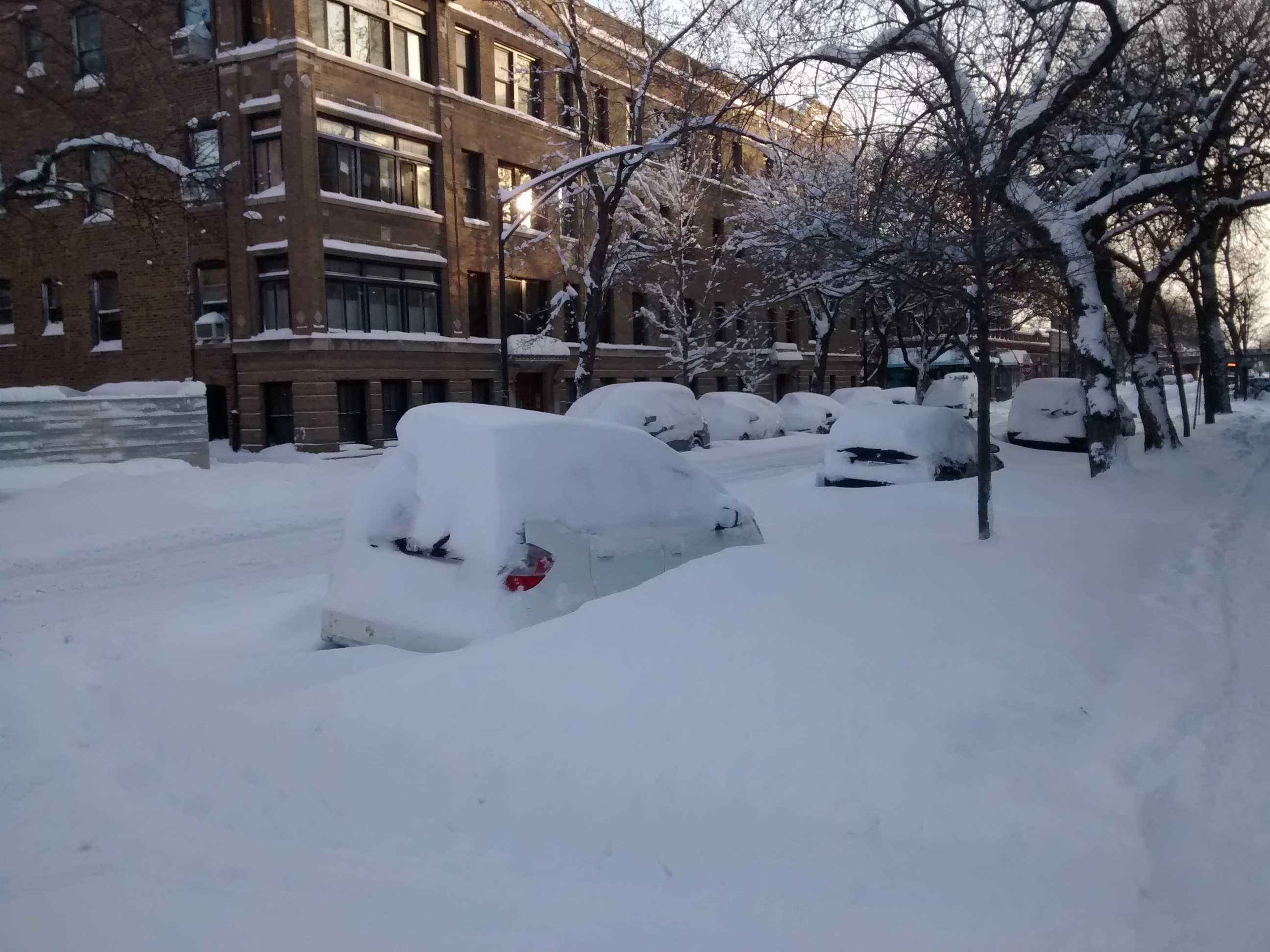 Cars covered with snow in Hyde Park, Chicago on February 2, 2015, due to Winter Storm Linus.